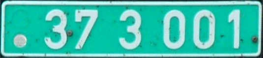 Diplomatic license plate from Lithuania, 37 = Azerbaijan